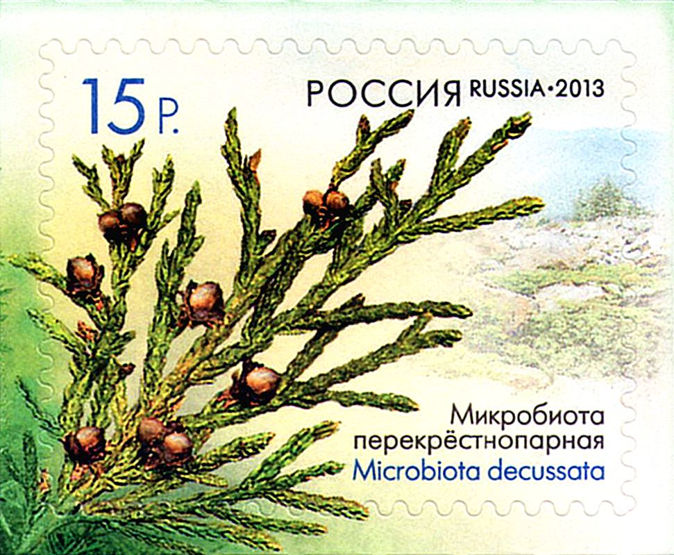 The flora of Russia. Cones of coniferous trees and shrubs. Microbiota decussata.The stamp of Russia, 15.00 Rubles, 4 March 2012, PTC Marka Catalogue No 1683, Michel No 1915. Self-adhesive paper. Offset printing. Perforation (stamping): 11½:11½. Size of the stamp: 36.5×29 mm. Print run: 110,000.